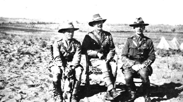 The Remaining Original Officers of the Auckland Mounted Rifles Regiment. in December. 1918. From left to right Major W. Haeata, Lieutenant-Colonel James Mccarroll, and Lieutent W. Stewart.